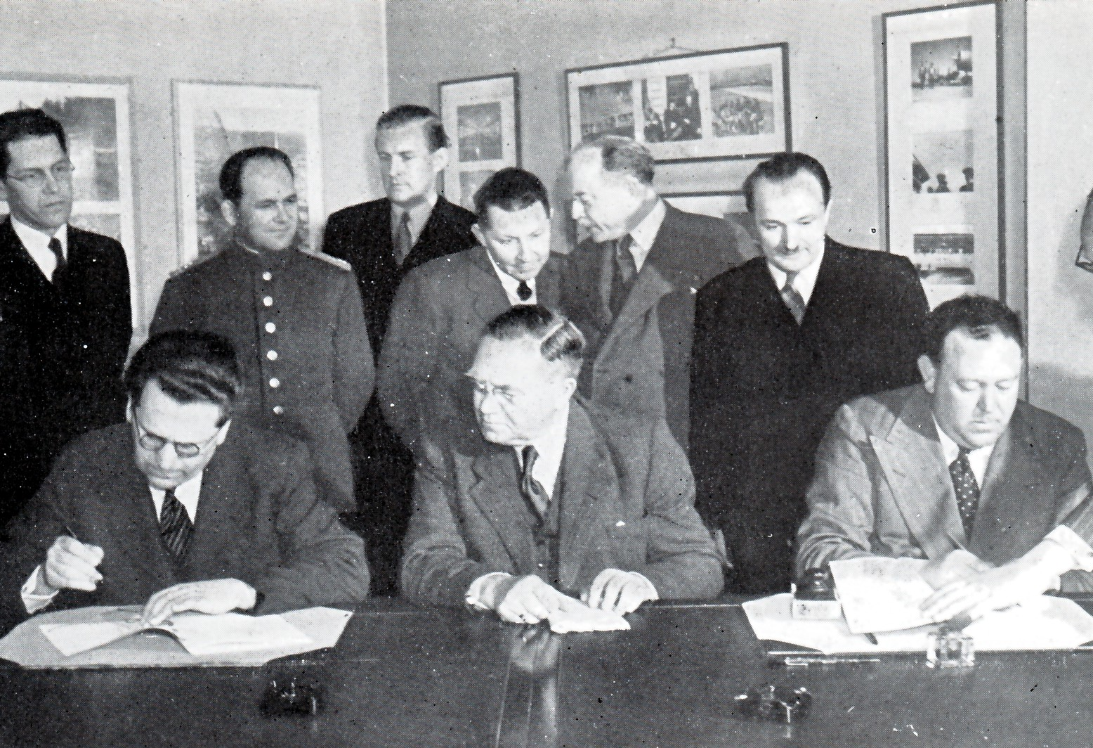 Signing of military agreement between Norway and the Soviet Union in London in 1944. Norwegian prime minister Johan Nygaardsvold centre, Trygve Lie right.